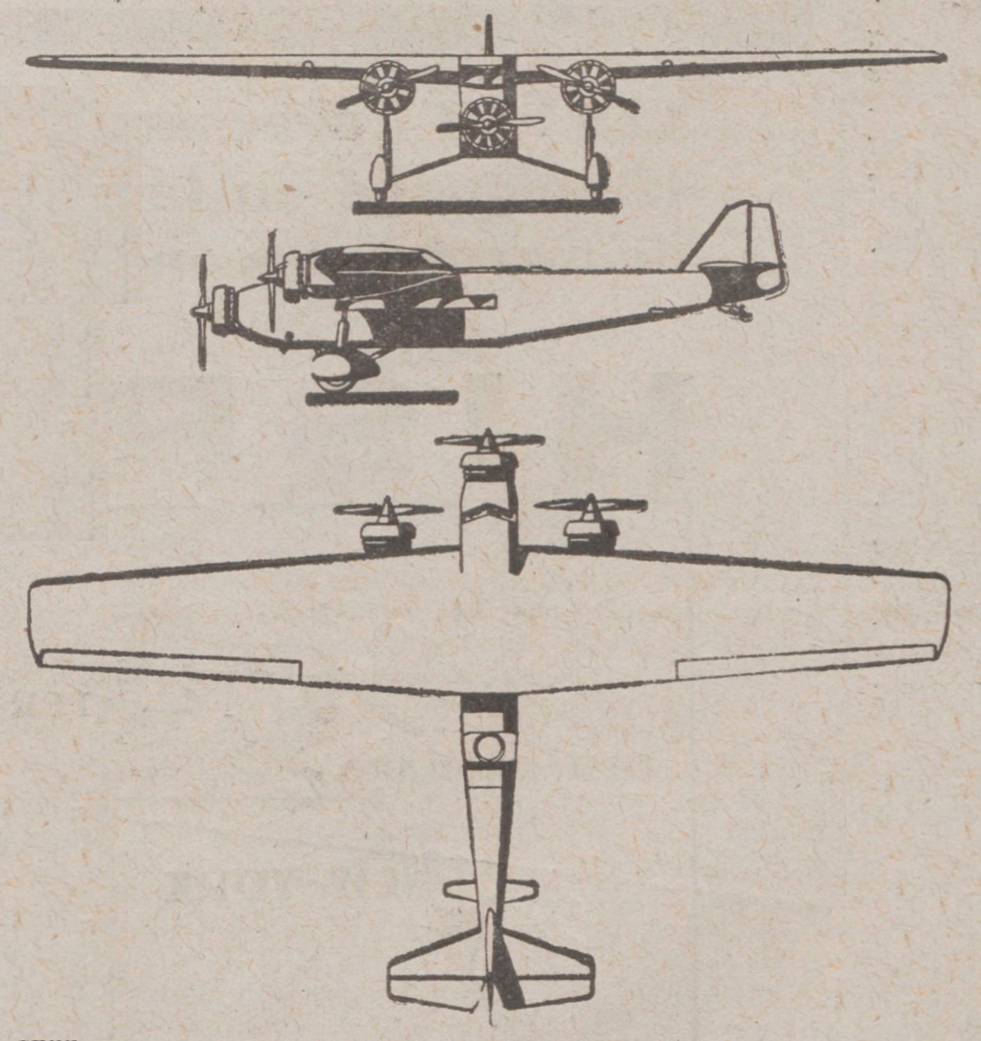 3-views of the Lorraine-Hanriot LH.70 colonial aircraft from Les Ailes magazine, 1933